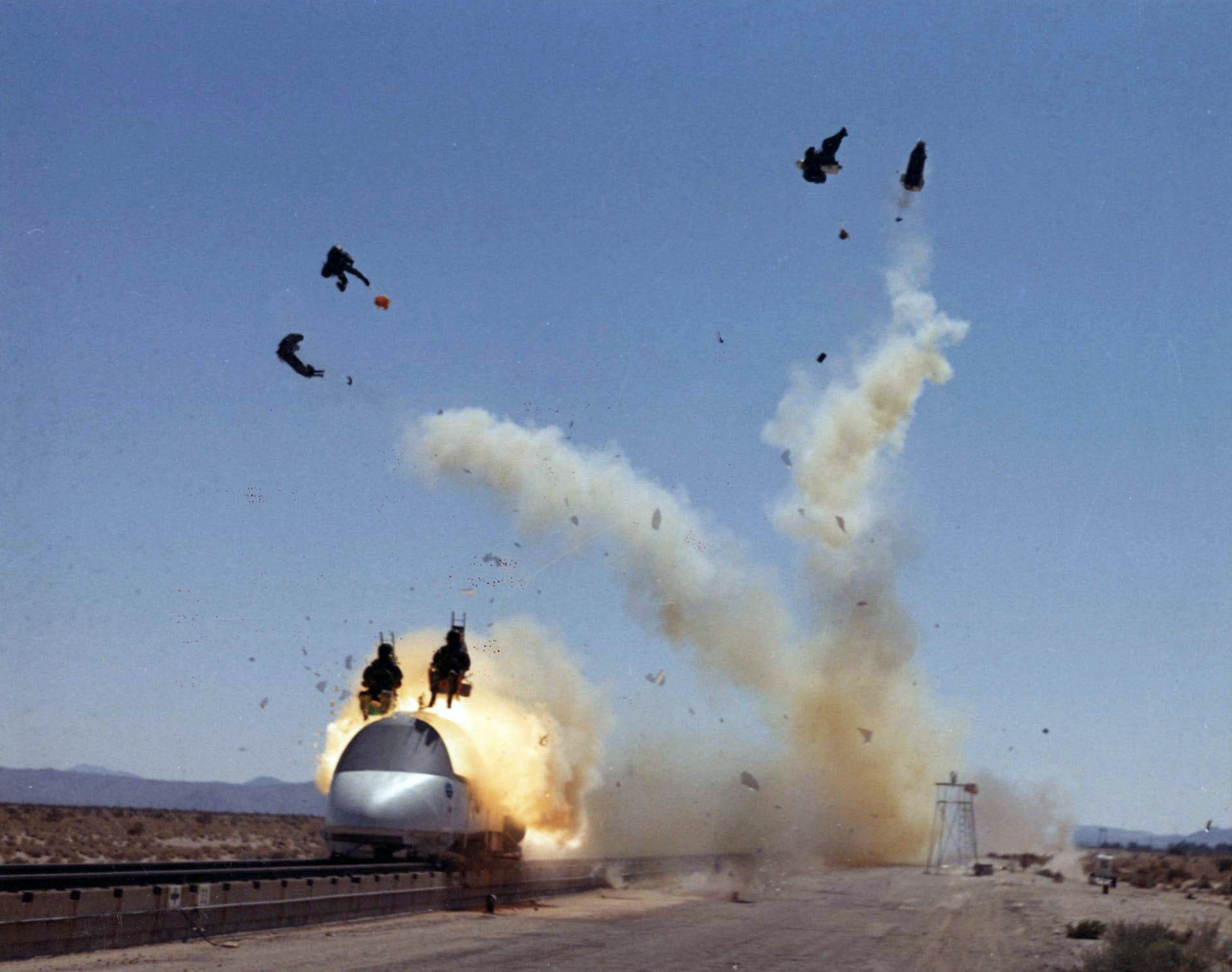 Photo of the trials of the ejection seats of the (then) new Lockheed S-3 Viking at the U.S. Navy Naval Weapons Center at China Lake, California (USA), in 1971.